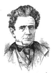 Image is of James Shannon, the second president of the University of Missouri - Columbia. It is from page 183 of the book. From the Google Books archive: Title The National cyclopaedia of American biography Volume 8 of The National cyclopaedia of American biography: being the history of United States as illustrated in the lives of the founders, builders, and defenders of the republic, and of the men and women who are doing the work and moulding the thought of the present time Publisher J.T. White, 1898 Original from Harvard University Digitized Jun 17, 2008